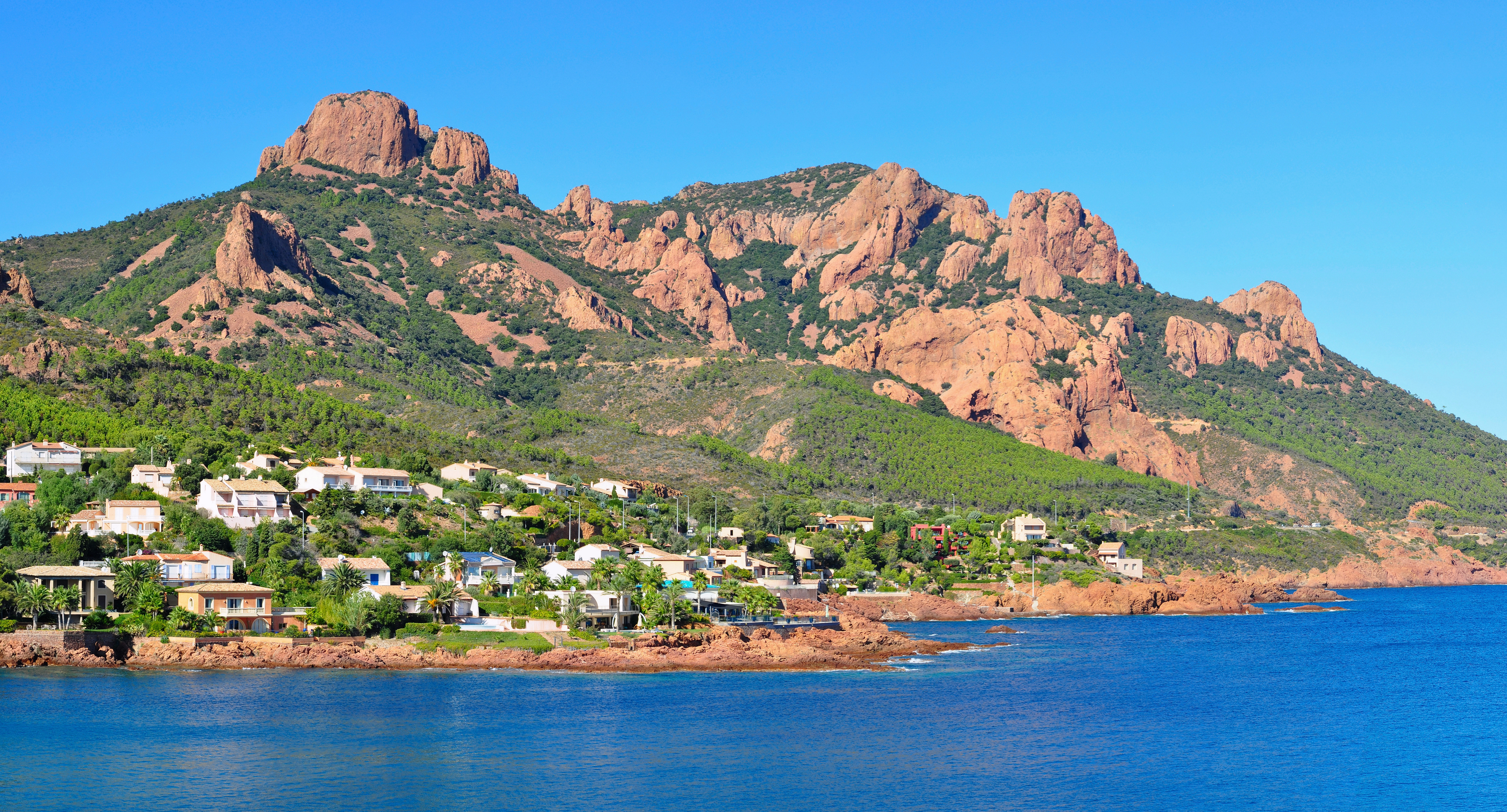 the Esterel Massif is a coastal (mediterranean) mountain range in the departments of Var and Alpes-Maritimes in Provence, south-east France